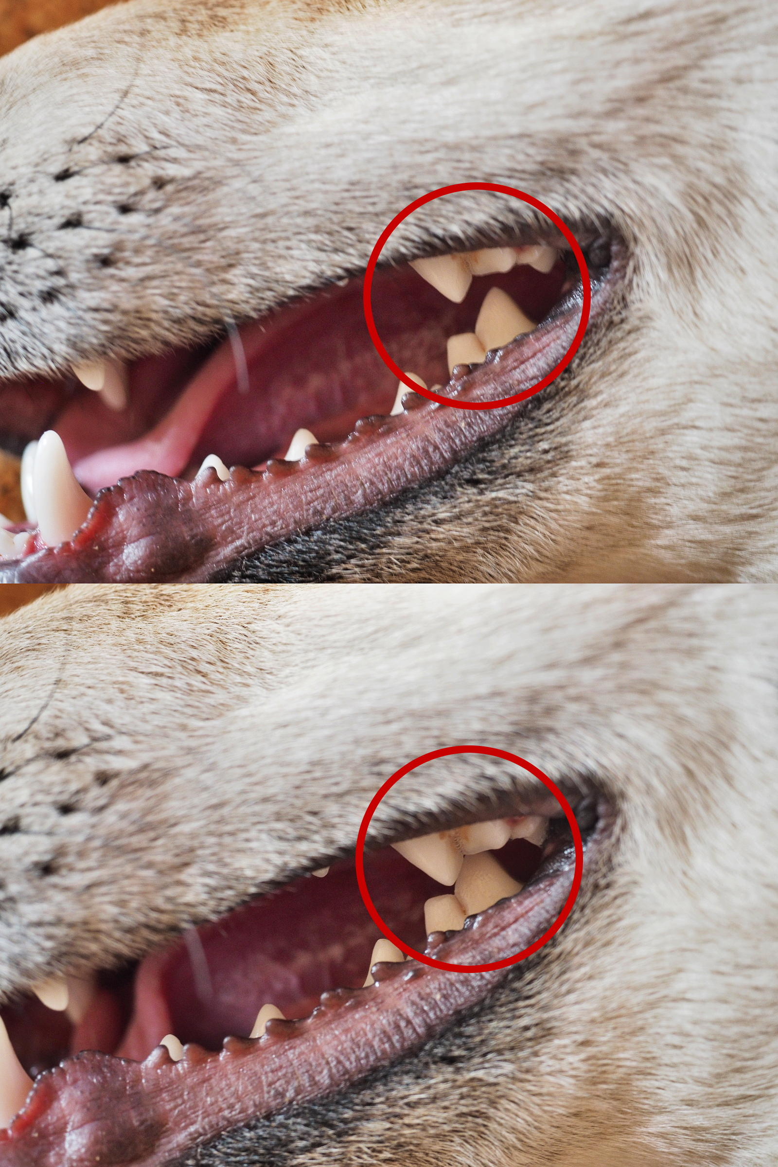 Carnassials of a dog (male mongrel, 9 months old). The inside of the 4th upper premolar aligns with the outside of the 1st lower molar, working like scissor blades on food.